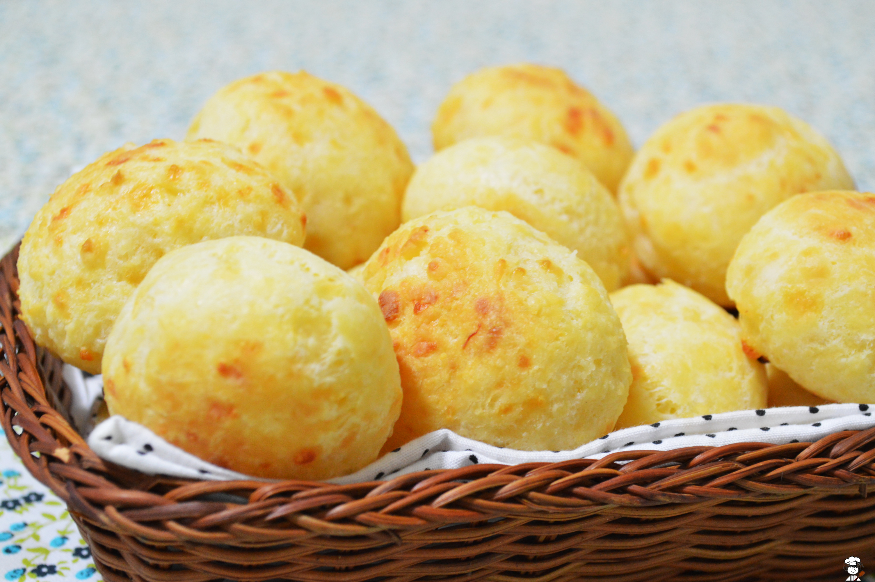 cheese bread home made